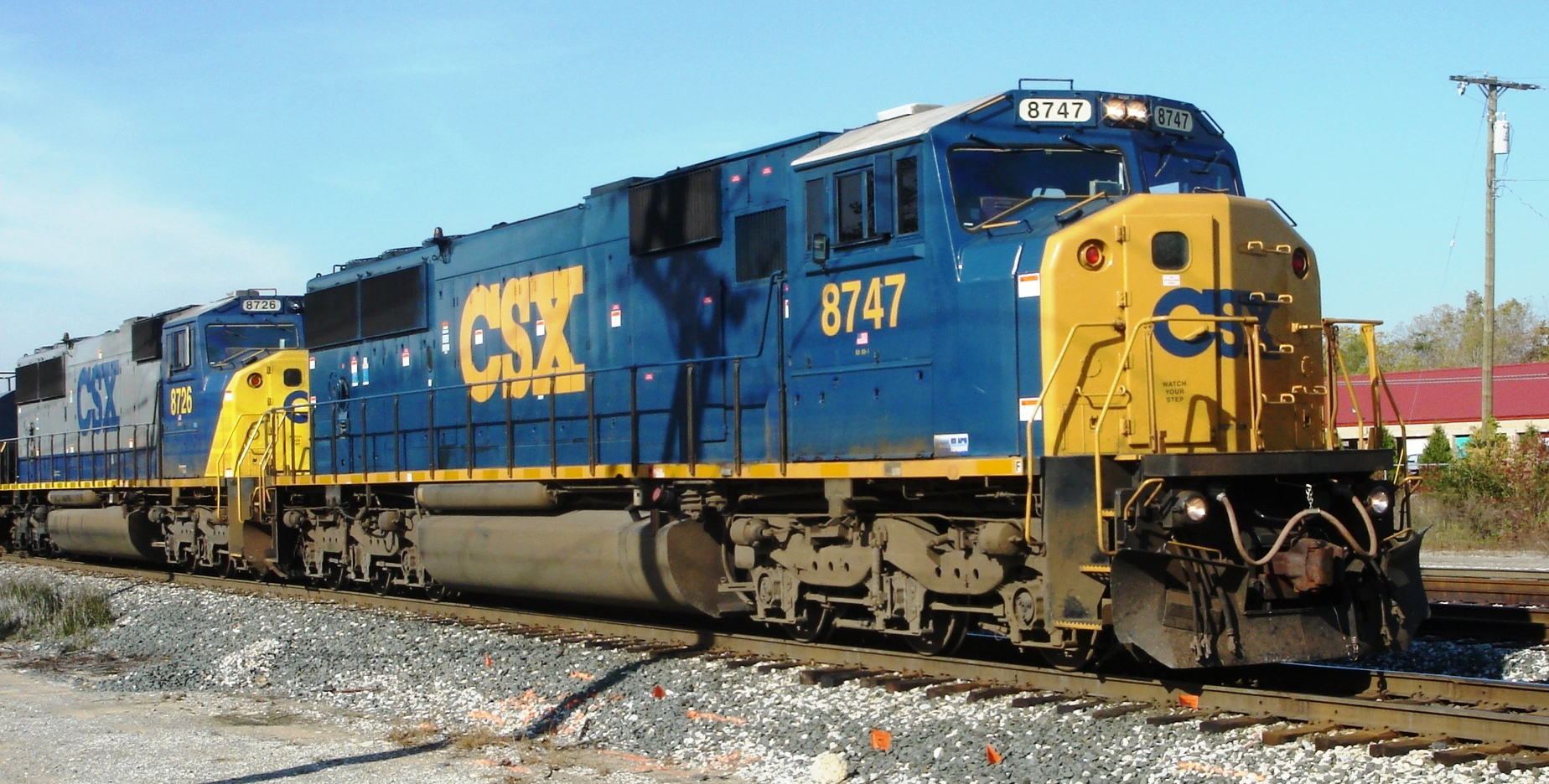 EMD SD60I, CSX Transportation; Plymouth Mighigan